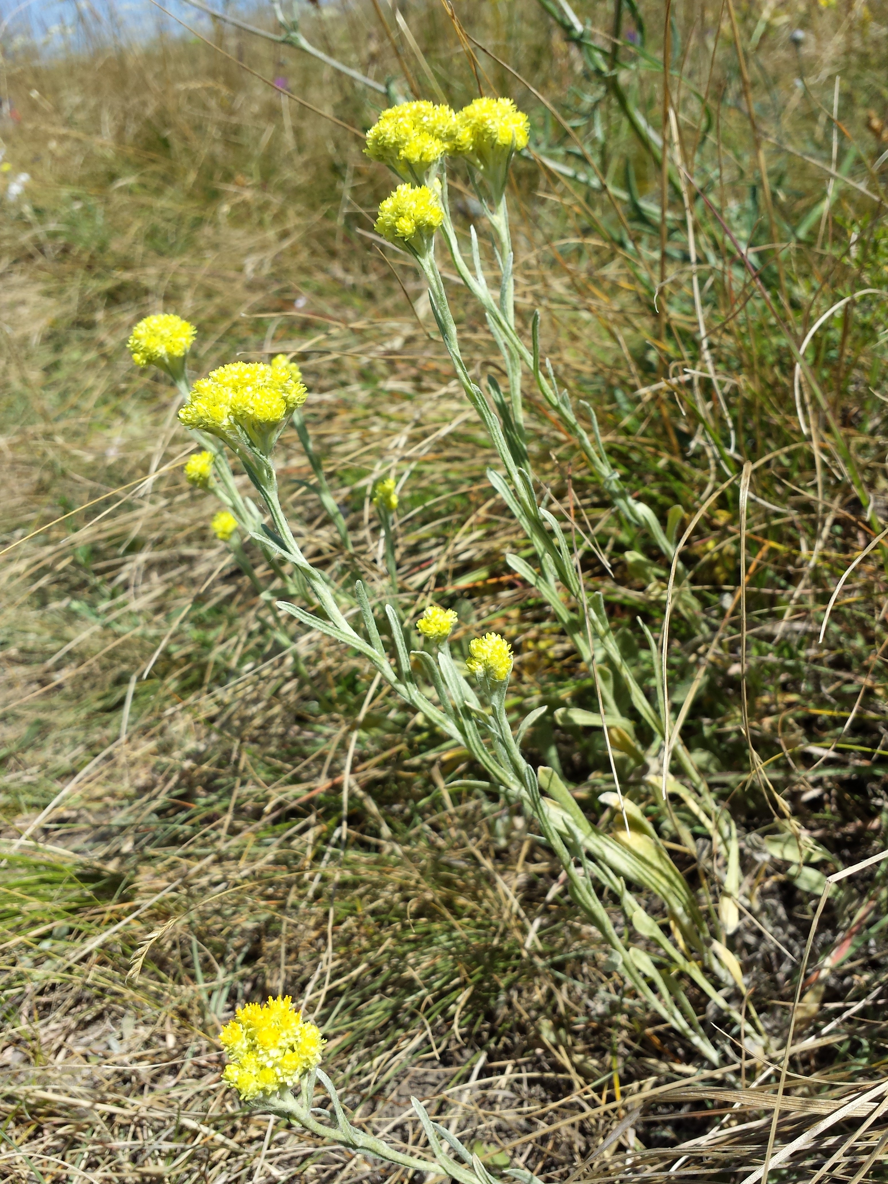 Habitus Taxon: Helichrysum arenarium (sensu Fischer et al. EfÖLS 2008) Location: nature reserve Sandberge Oberweiden, district Gänserndorf, Lower Austria - ca. 160 m a.s.l. Habitat: sand steppe